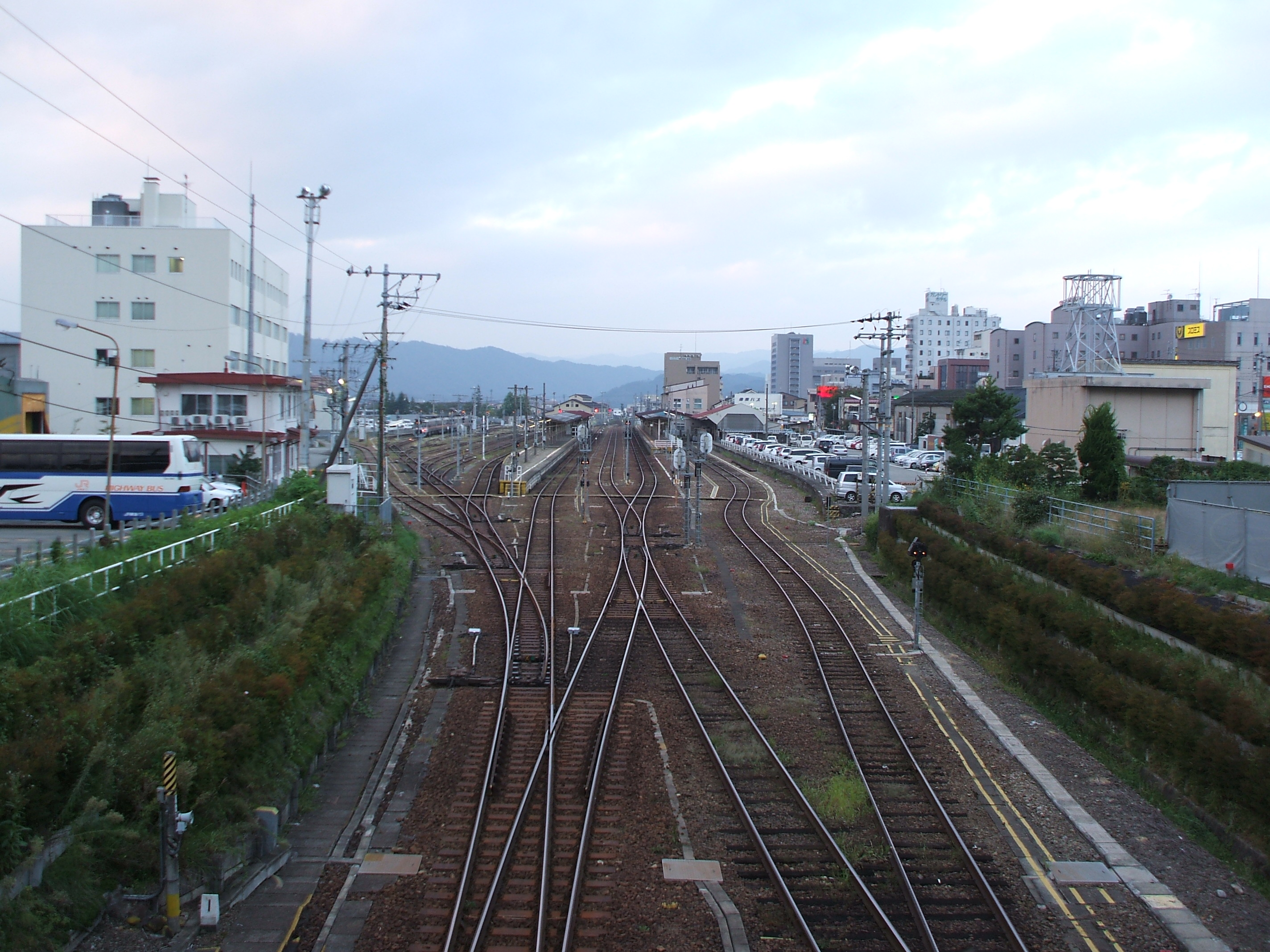 Takayama Station in Takayama, Gifu